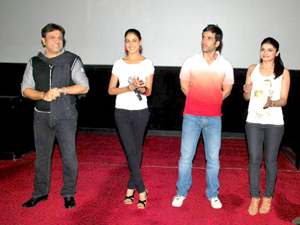 (l-r) Govinda, Genelia D'Souza, tusshar kapoor, Prachi Desai at special screening of Life Partner